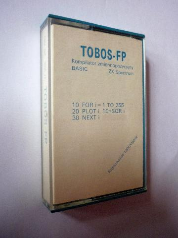 TOBOS-FP compiler tape compact casette for ZX Spectrum